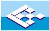 Logo of National Pingtung Institute of Commerce.